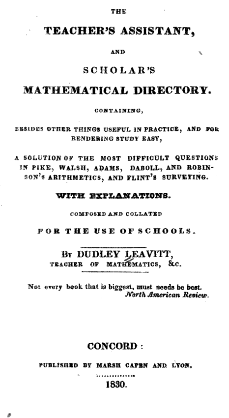 The Teacher's Assistant, and Scholar's Mathematical Directory, for the Use of Schools, by Dudley Leavitt, Teacher of Mathematics &c. Published by Marsh Capen and Lyon, Concord, 1830.